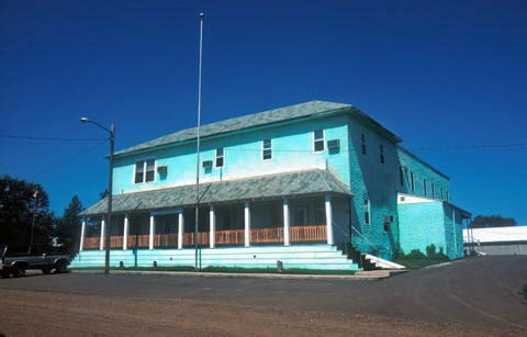 The Corson County Courthouse in McIntosh, South Dakota (slightly cropped and brightness-adjusted from original). This building was destroyed by fire on April 10, 2006.